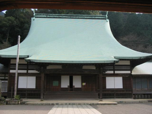 The main temple at Zuioji, a Soto Zen temple at the edge of the mountains in south Niihama. I took this photo in 2004.